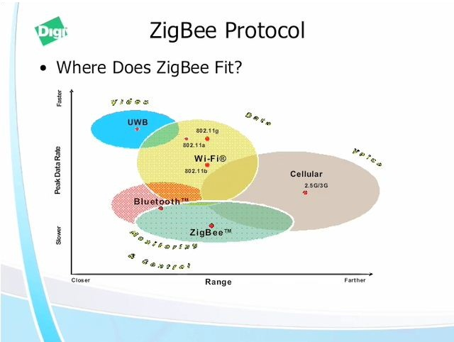 ZigBee Vs Other Wireless Solutions